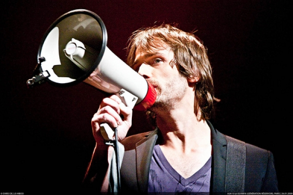 Johan Czerneski, A24-13, Olympia, France bleu, Tremplin génération réversoir